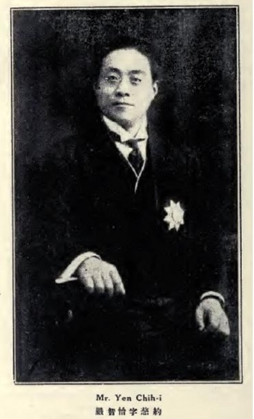 Yan Zhiyi (1881-1935)